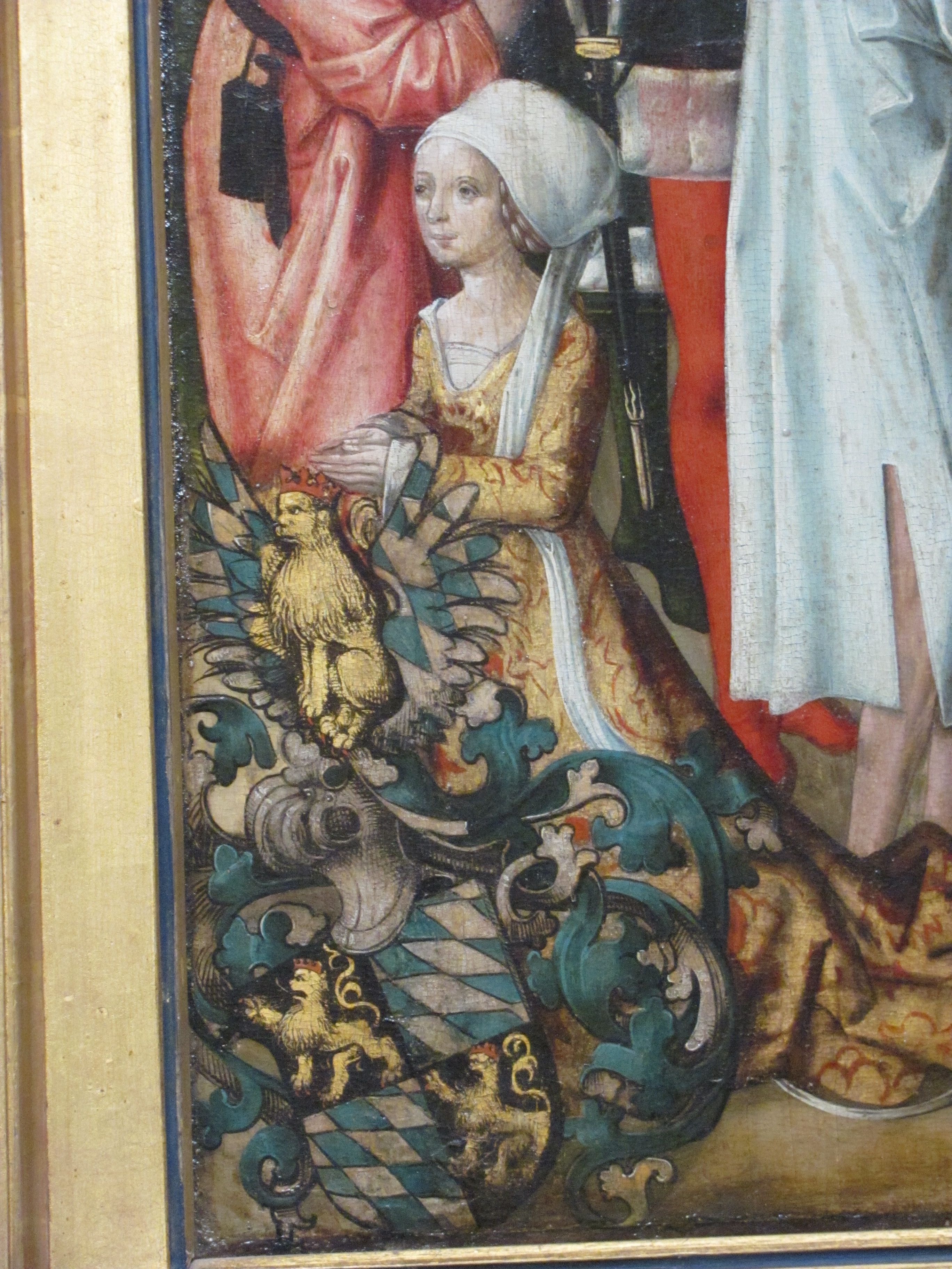 Margarethe von Pfalz-Mosbach